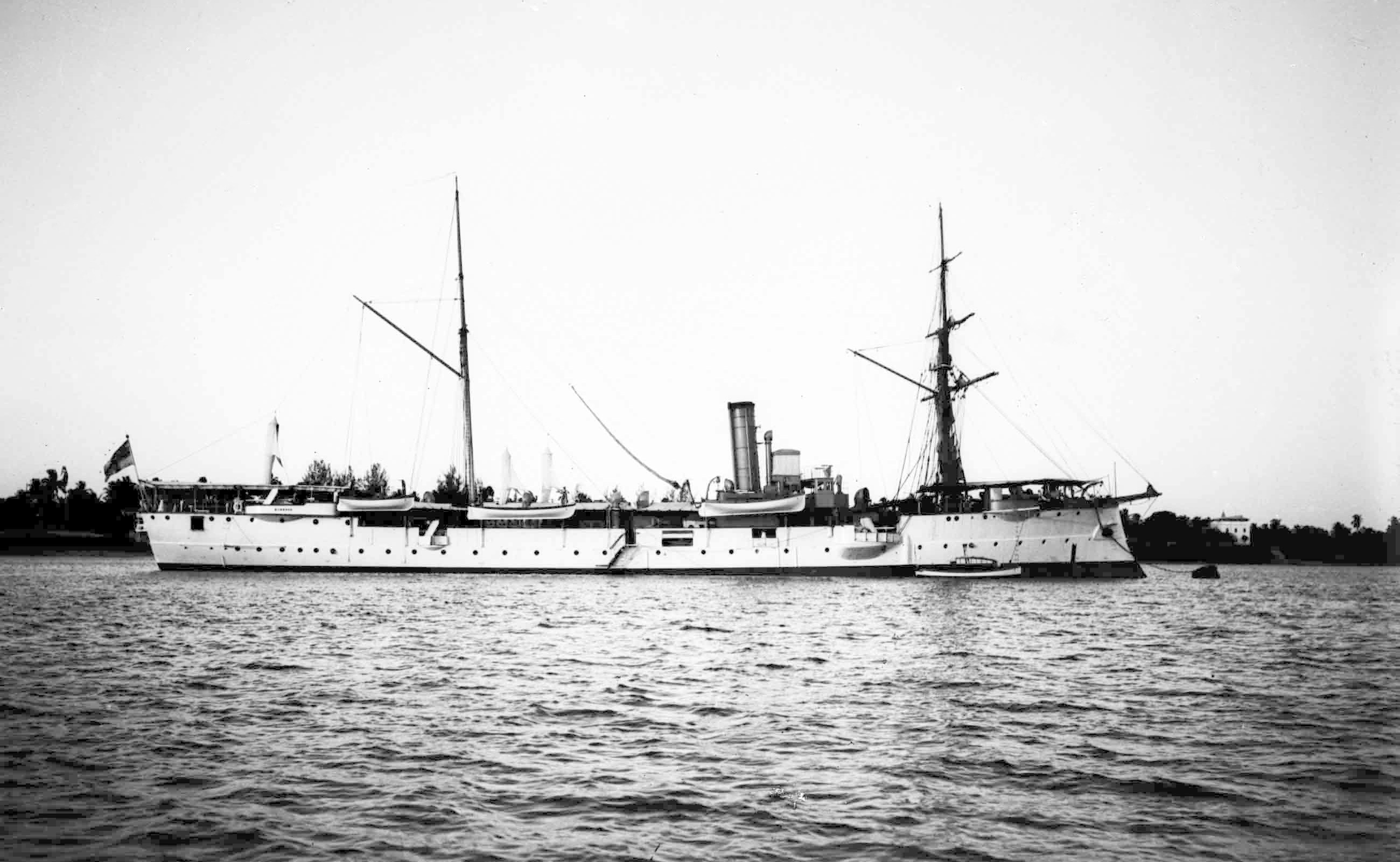 Small Cruiser SMS Bussard in the Harbour of Dar es Salaam, German East Africa.